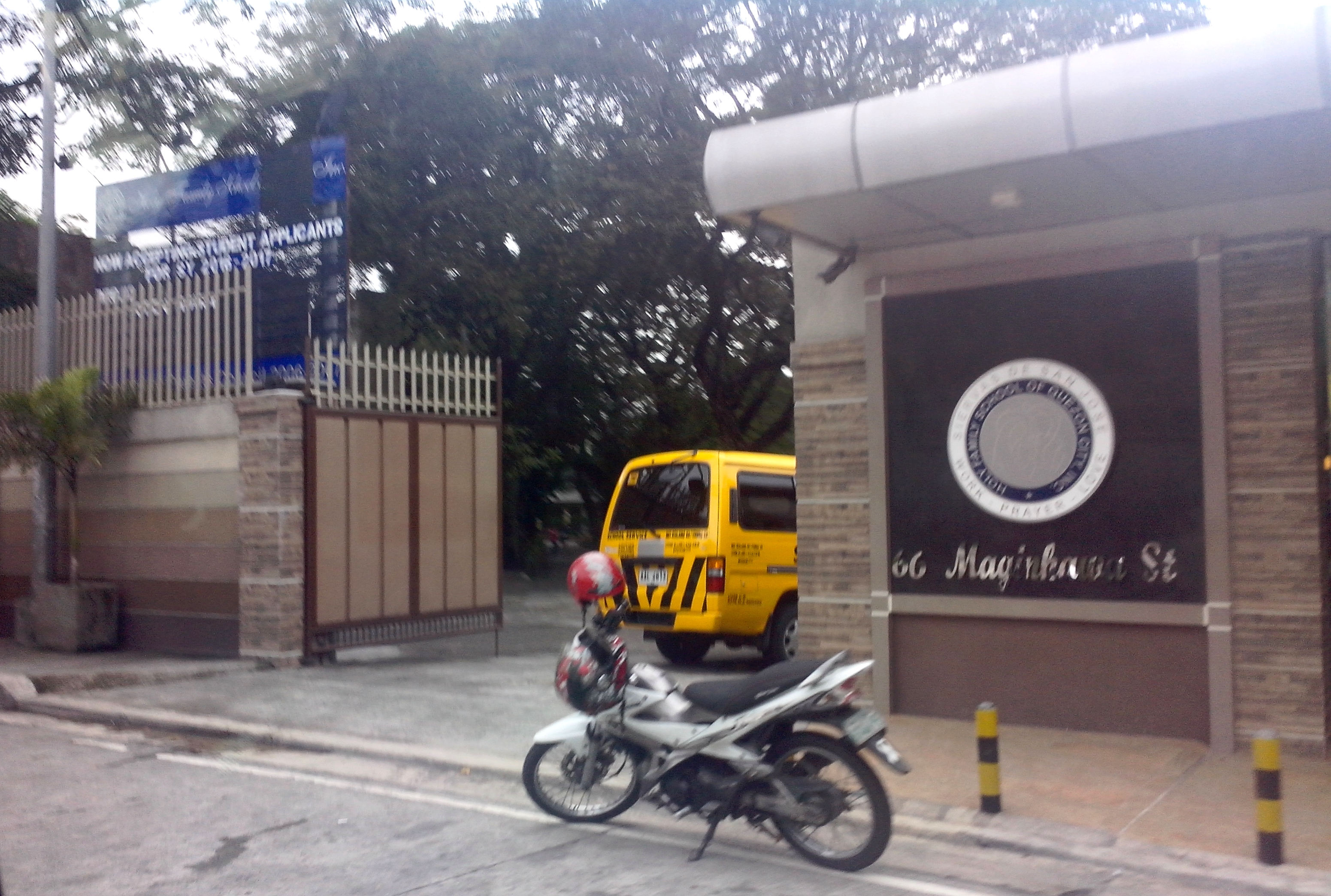 Gate of the Holy Family School of Quezon City